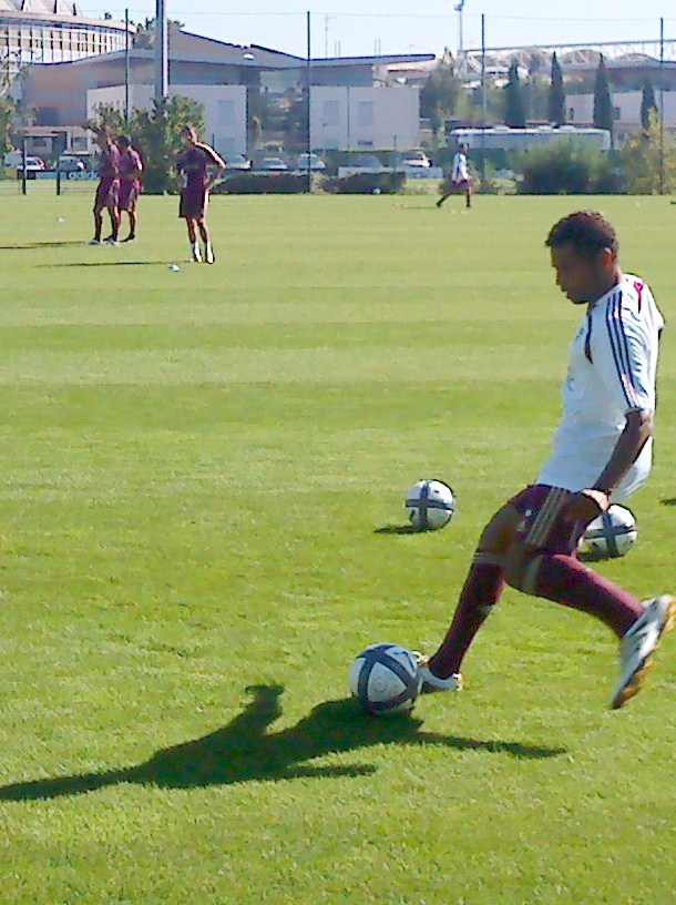 Sonny Anderson Olympique Lyonnais forwards's coach during 2010-2011 season.